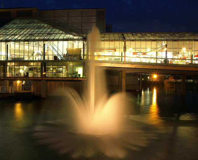 Fountain in Princes Quay Princes Quay is a shopping complex in the centre of Hull and is built on 'stilts' above the former Princes Dock. There are two fountains in the dock now and this is the most northerly one. The shopping centre itself can be seen in the background. The photograph was taken with an exposure time of about six seconds to give this effect.